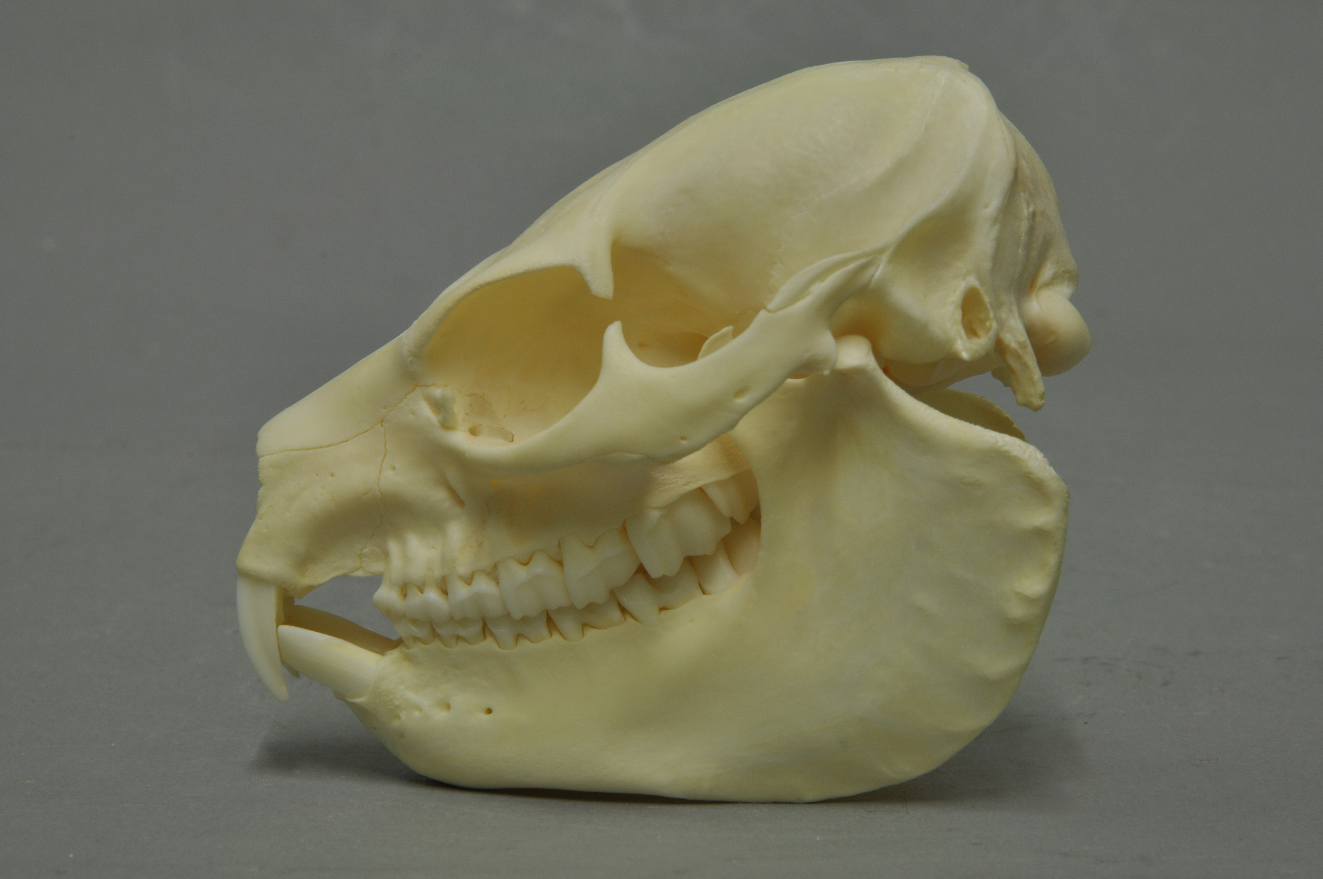 Rock hyraxProcavia capensis, skull, Coll. Museum Wiesbaden